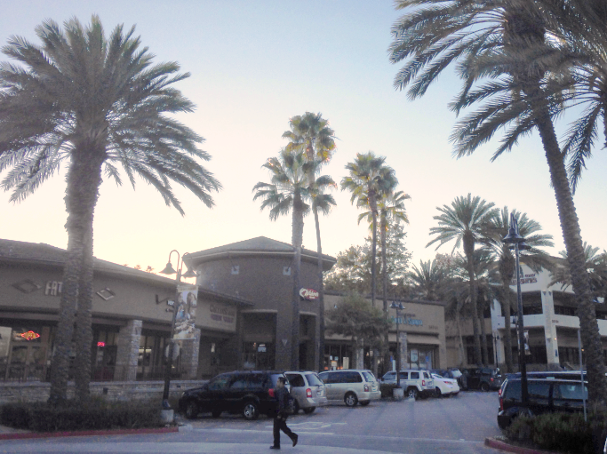 The Aliso Viejo Town Center